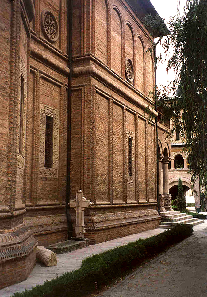 North side of Antim Monastery Church, 1715, Bucharest, Romania